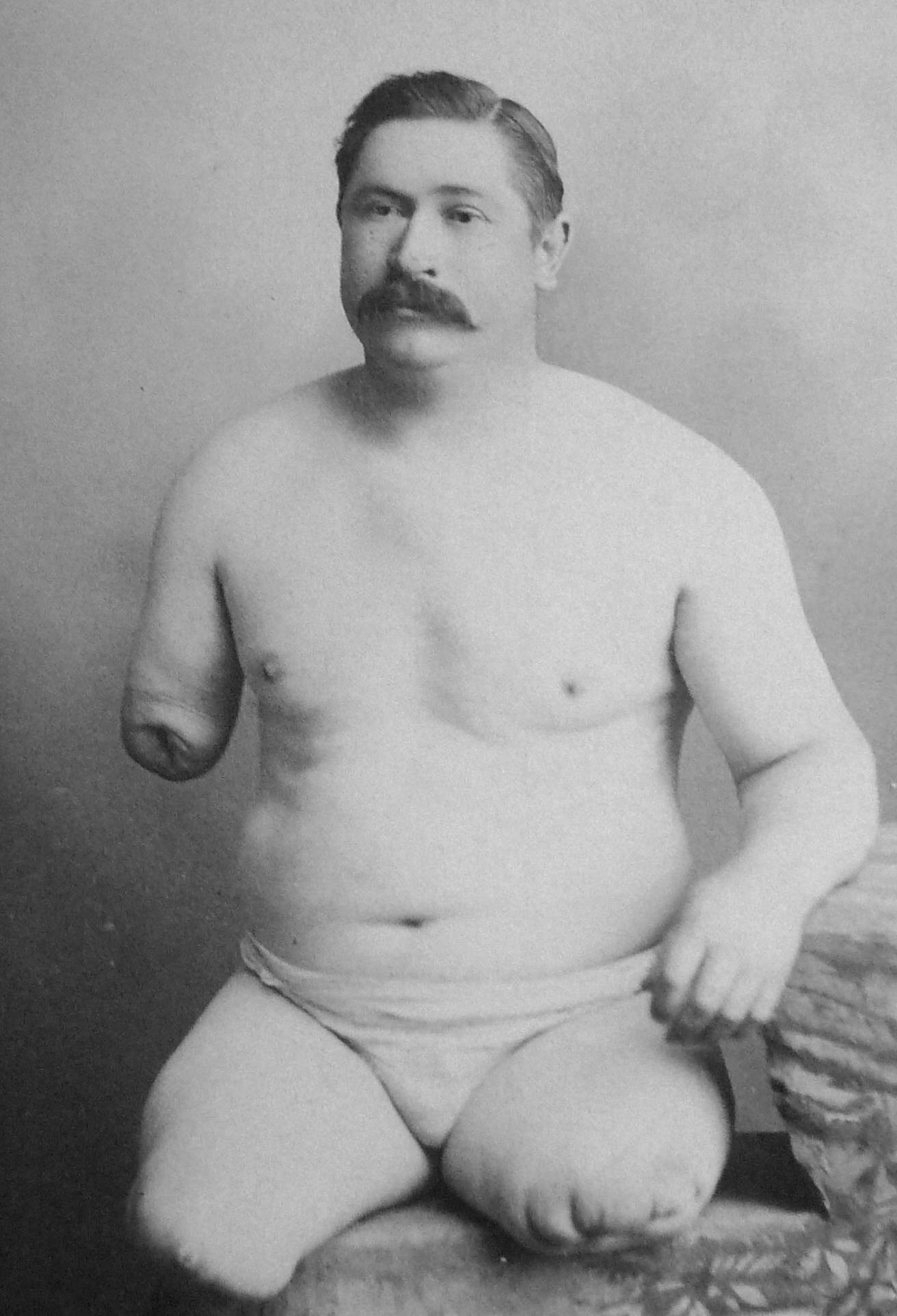 J. McKnight was the second case of simultaneous triple amputation by Dr. James Buckner Luckie. He lost his limbs in 1865 at the age of 32 years in a railway accident.